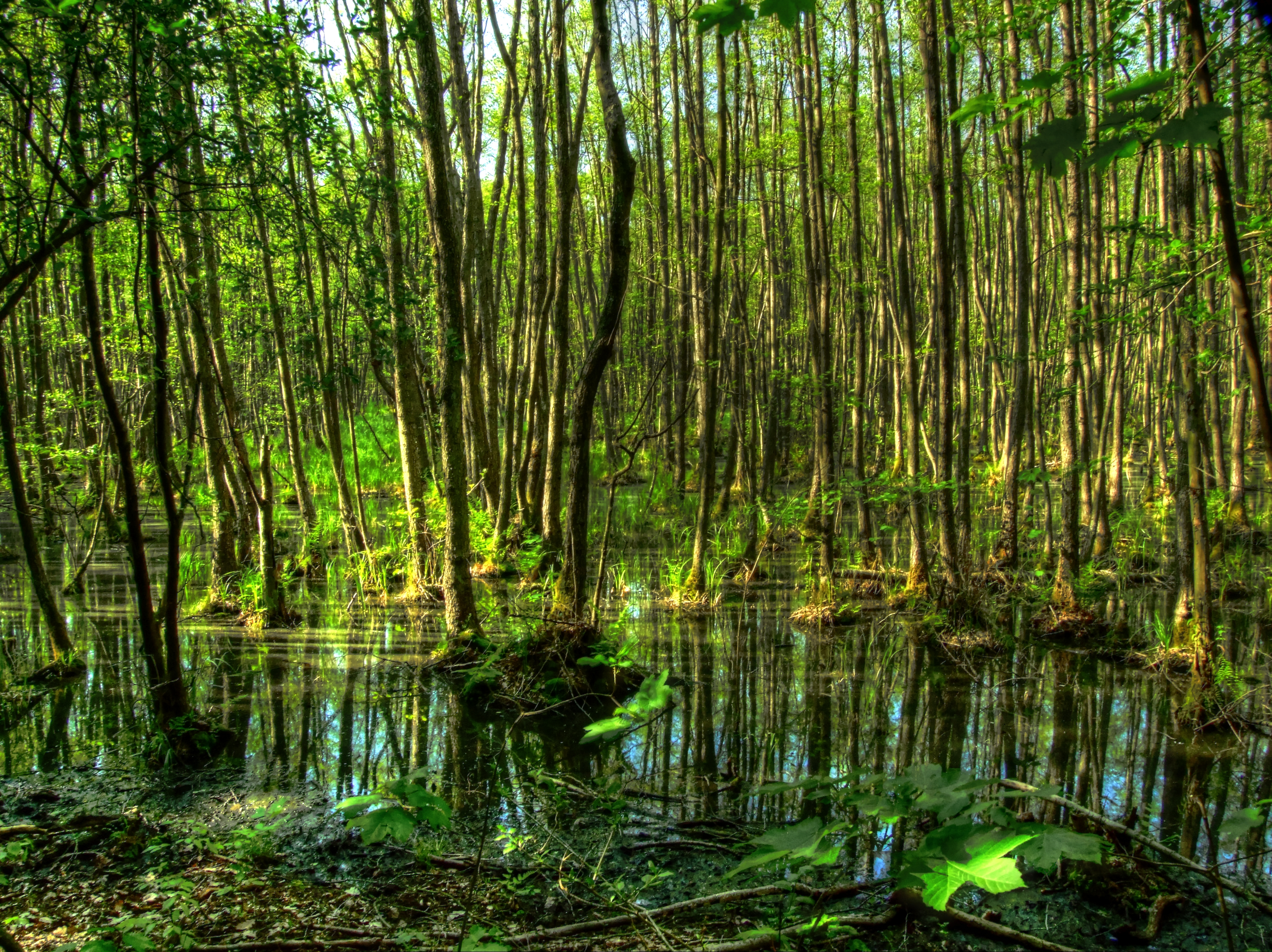 The photo shows the typical "Auenwald"-vegetation (flood plain) surrounding lake Herrensee in the year 2012 (part of the Special Area of Conservation DE-3449-301, which includes lake Herrensee, the Lange-Damm-Wiesen und Barnimhänge near the city of Strausberg, Brandenburg). In the years of 2011 and 2012, lake Herrensee and the surroundings moist areas were well watered, but have turned significantly dryer during the drought since 2013. The photos from 2012 and 2016 should be compared with regard to changes in water level.